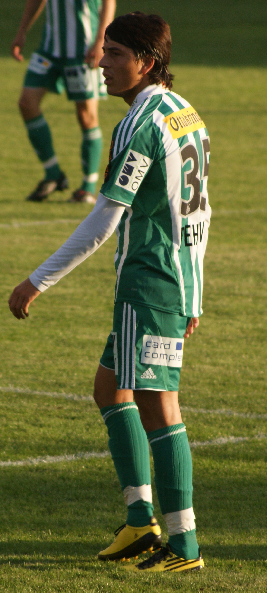 Austrian football player Yasin Pehlivan